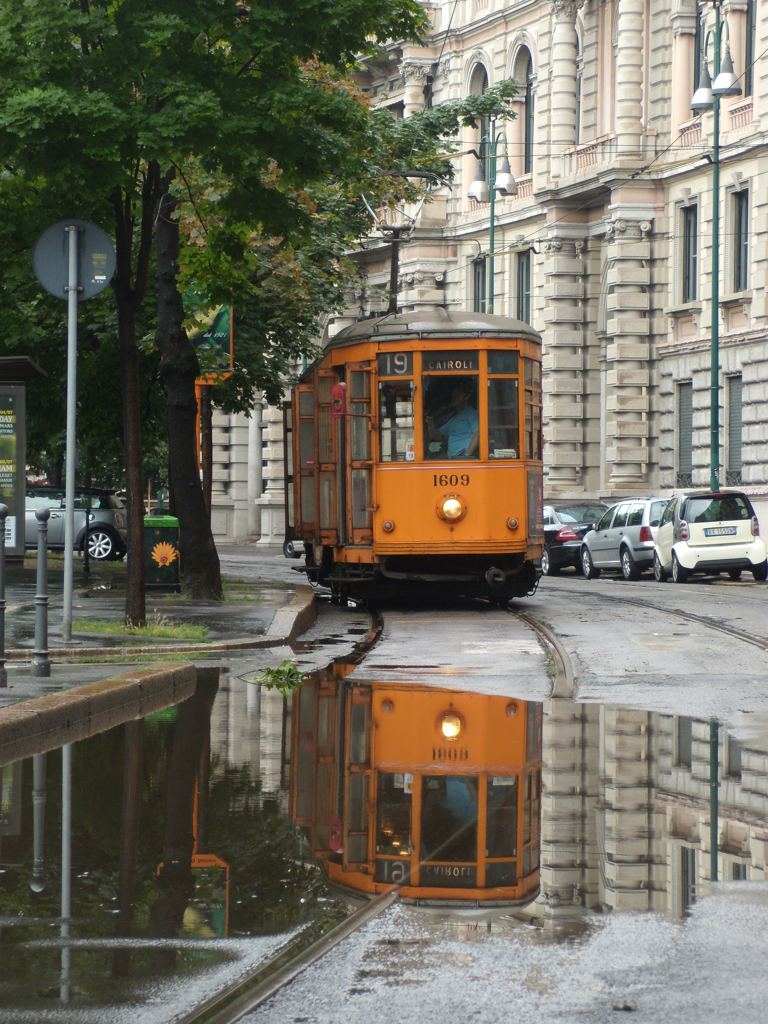 1609 in piazza Castello, a Milano